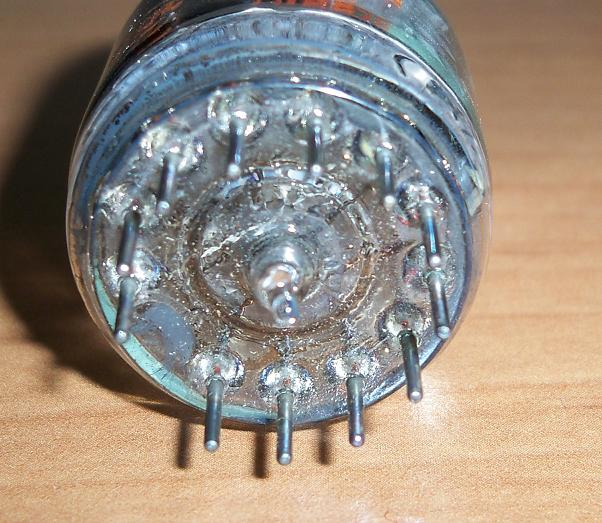 Duodekar base.